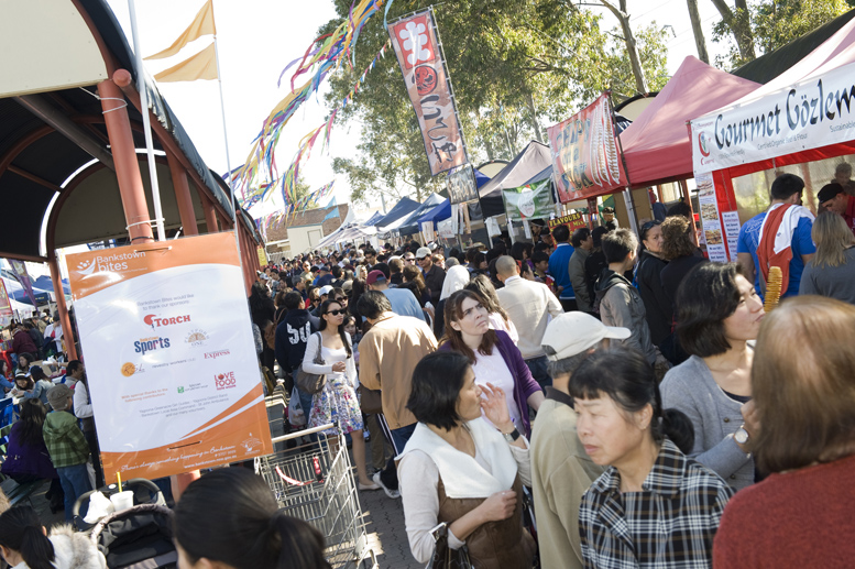 Bankstown Bites Food Festival Photo by Karen Steains